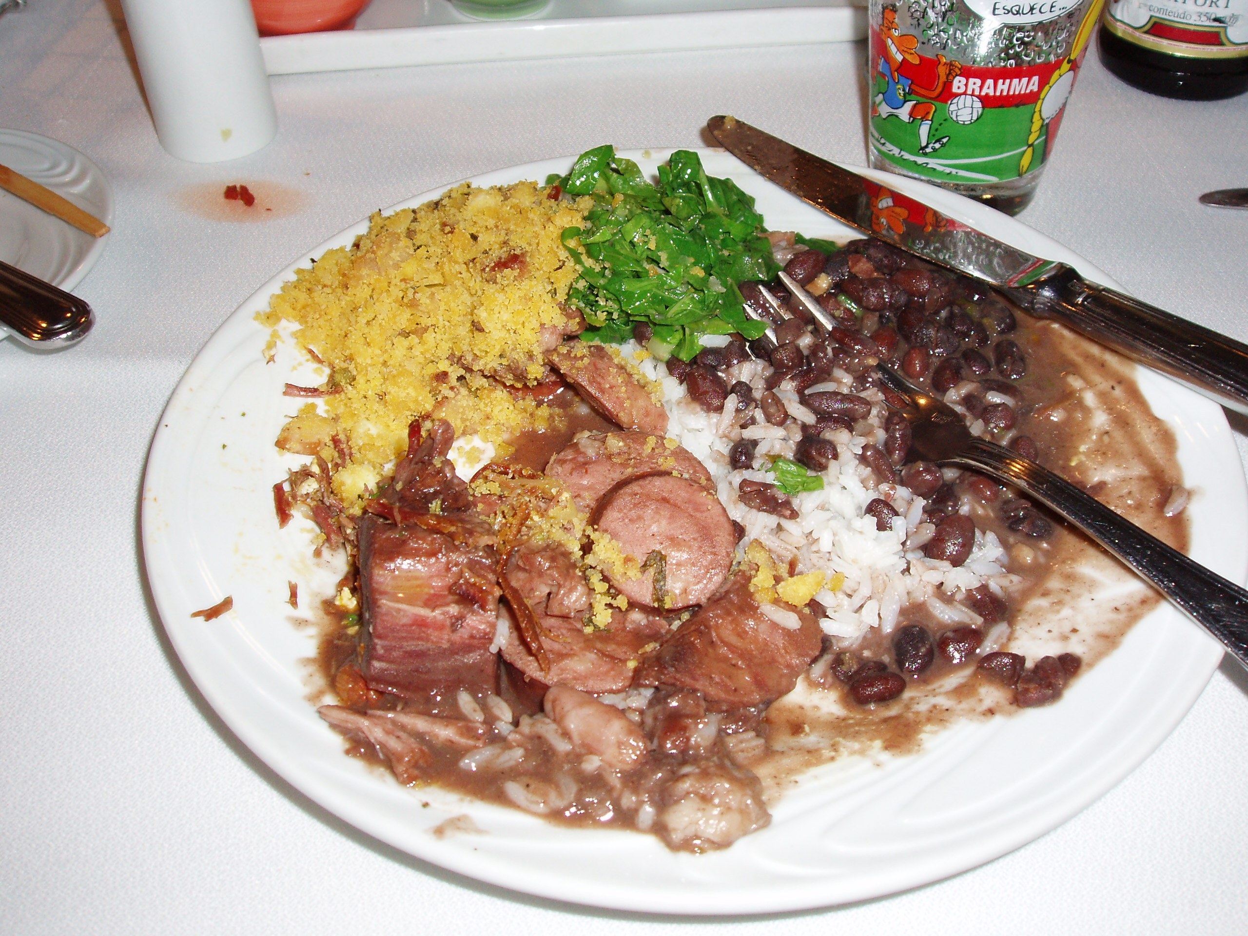 Feijoada